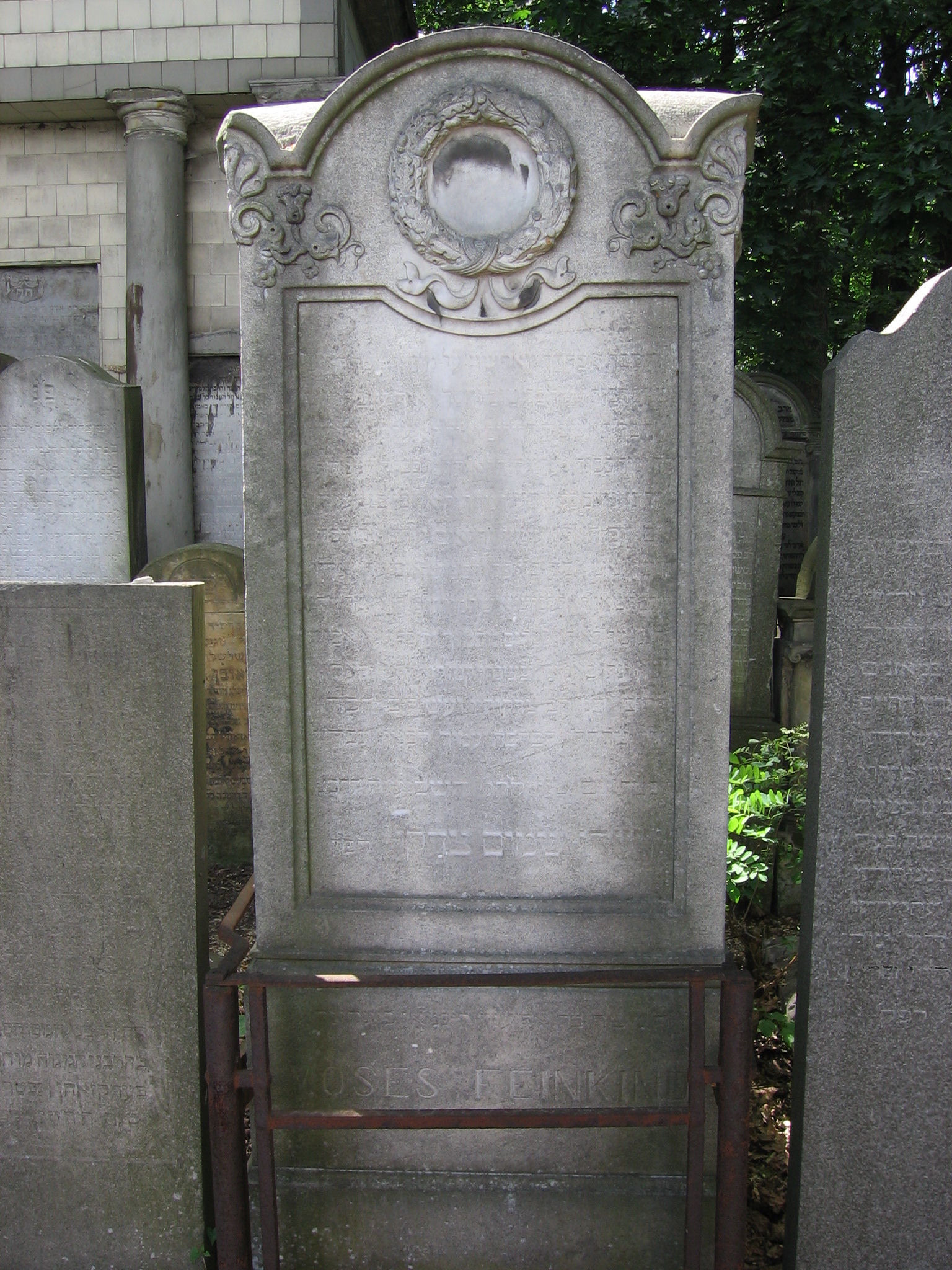 The grave of Moses Feinkind at Powązki Jewish Cemetery in Warsaw, Poland